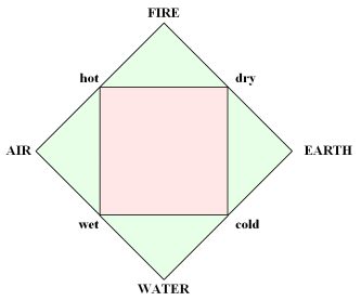 The four classical elements, after Aristotle.